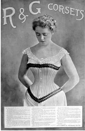 Earnest Elmo Calkins developed a series of ads for R & G Corset Company while working in New York for Charles Austin Bates. The use of a bold photographic image on the back cover of a mass circulation periodical was a new step for the company and a harbinger of Calkins's later development of visual selling strategies. From Ladies' Home Journal, Oct. 1898, back cover.